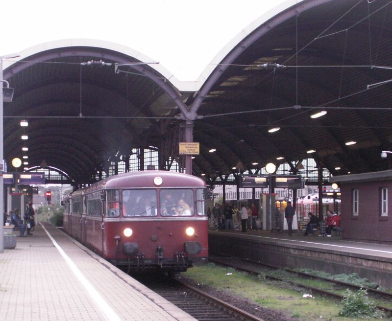 fotographed by me